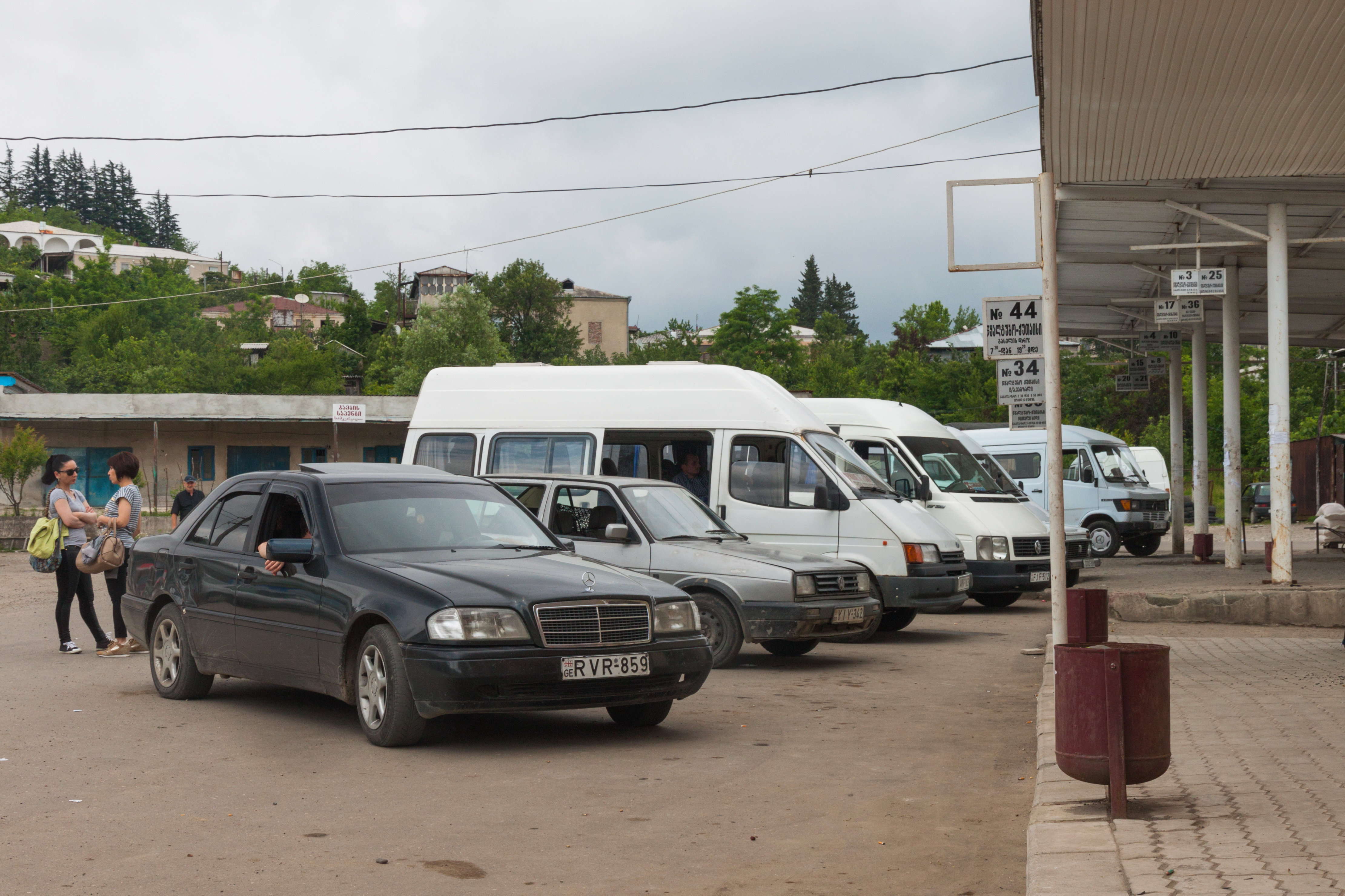 Bus station. Tsqaltubo, Imereti, Georgia.